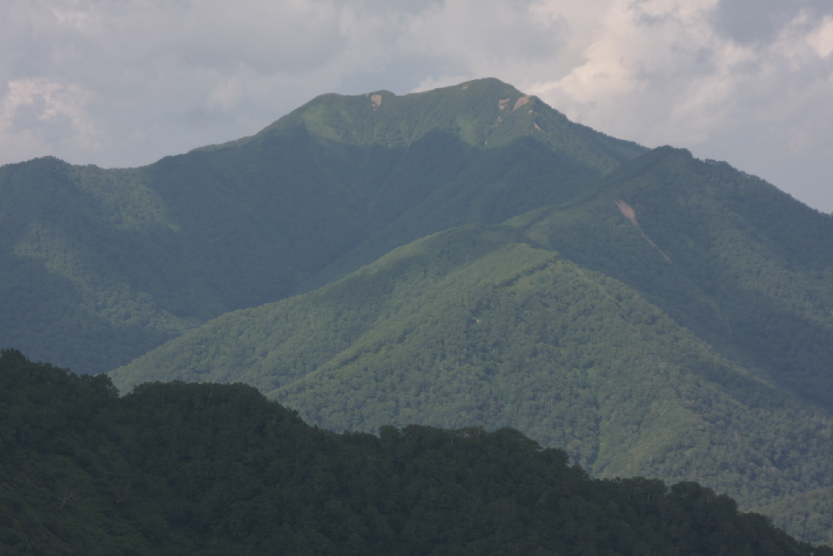 Mount Satsunai as seen from the south. Taken from Mount Kamuiekuuchikaushi's Pyramid Peak.